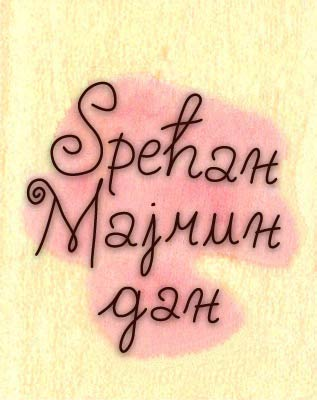 A Mother's Day card [in Serbian]